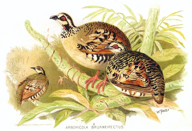 Arboricola Brunneipectus = Bar-backed Partridge (Arborophila brunneopectus)